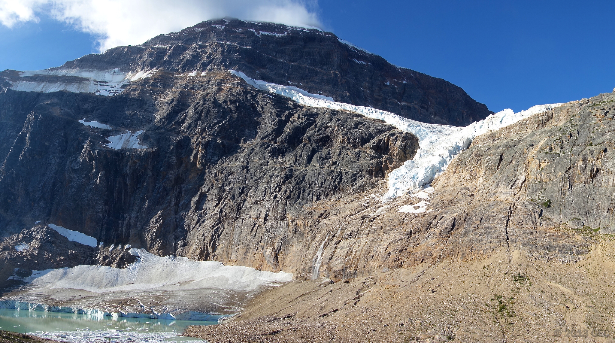 Cavell Glacier on the bottom left. Angel Glacier near the top right.